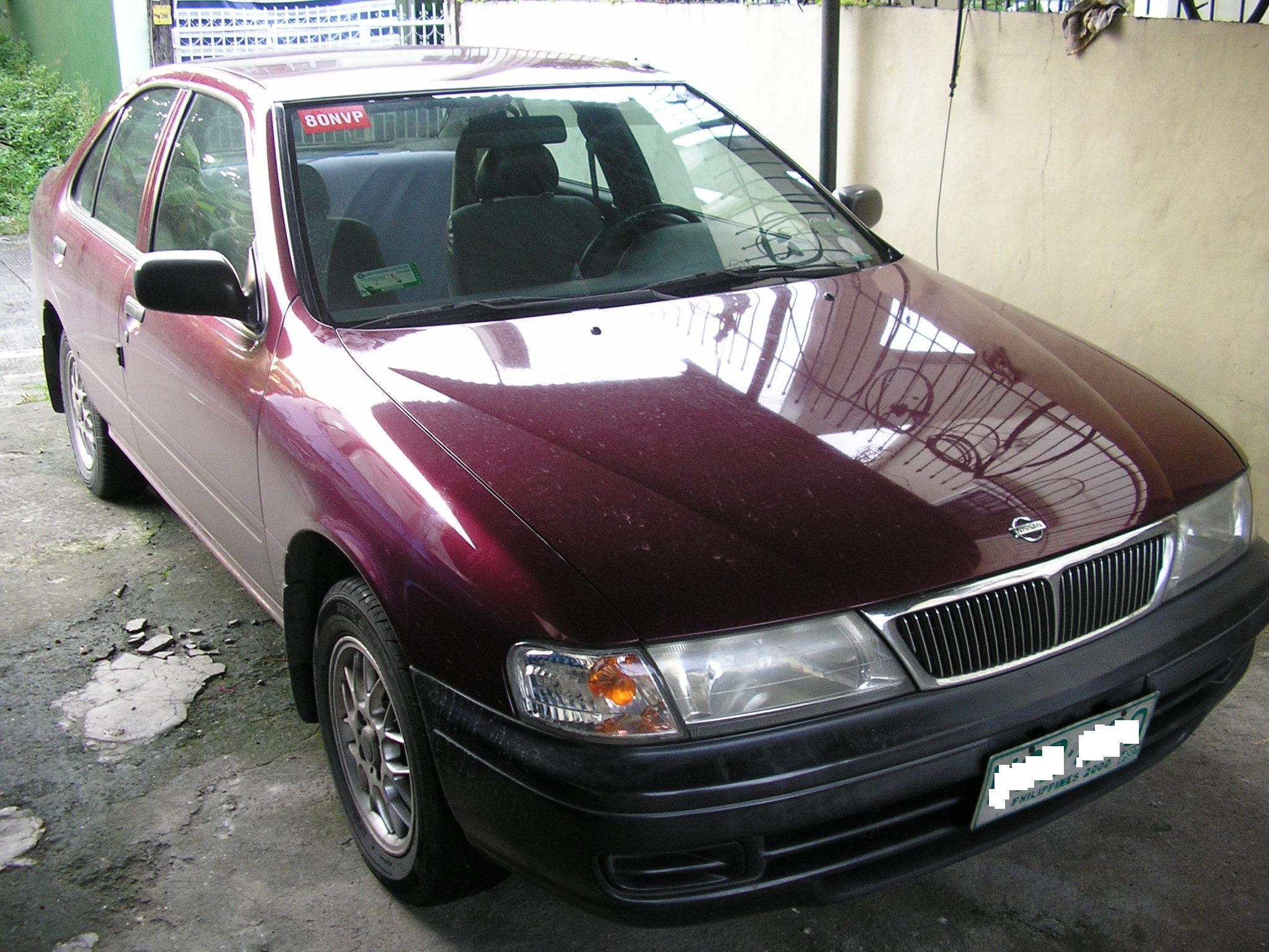 front of nissan sentra philipine version